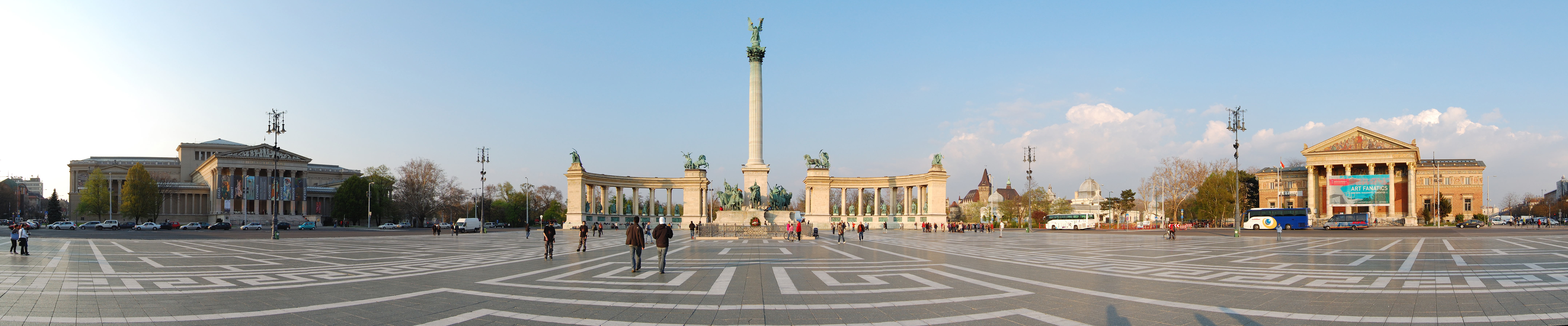 Heroes' Square in Budapest. This image was created with Hugin